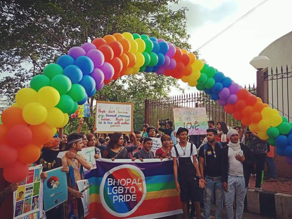 Queermitra LGBT pride